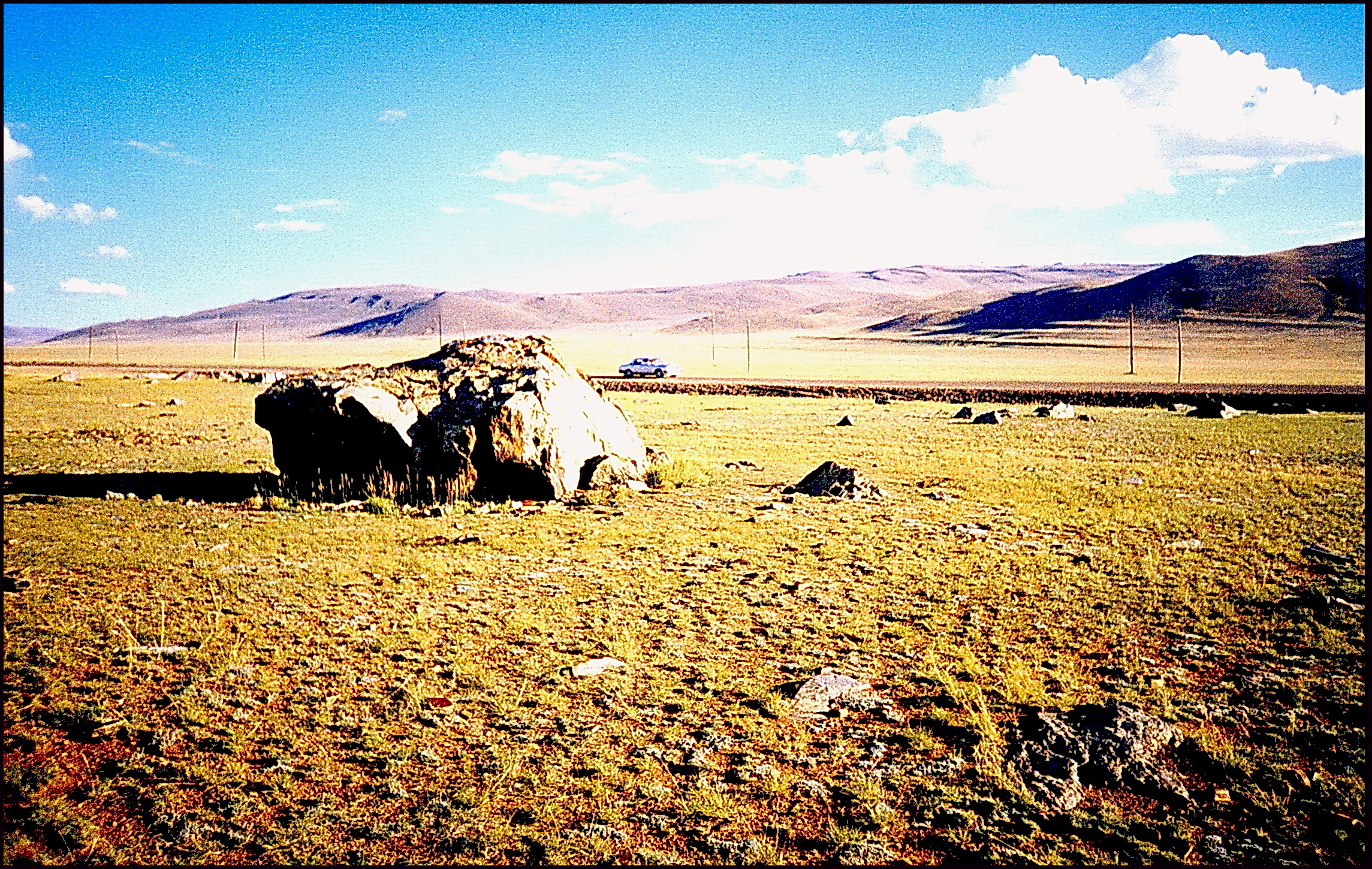 The Dropstones on the Bedd in Chyuha Valley, Altai.